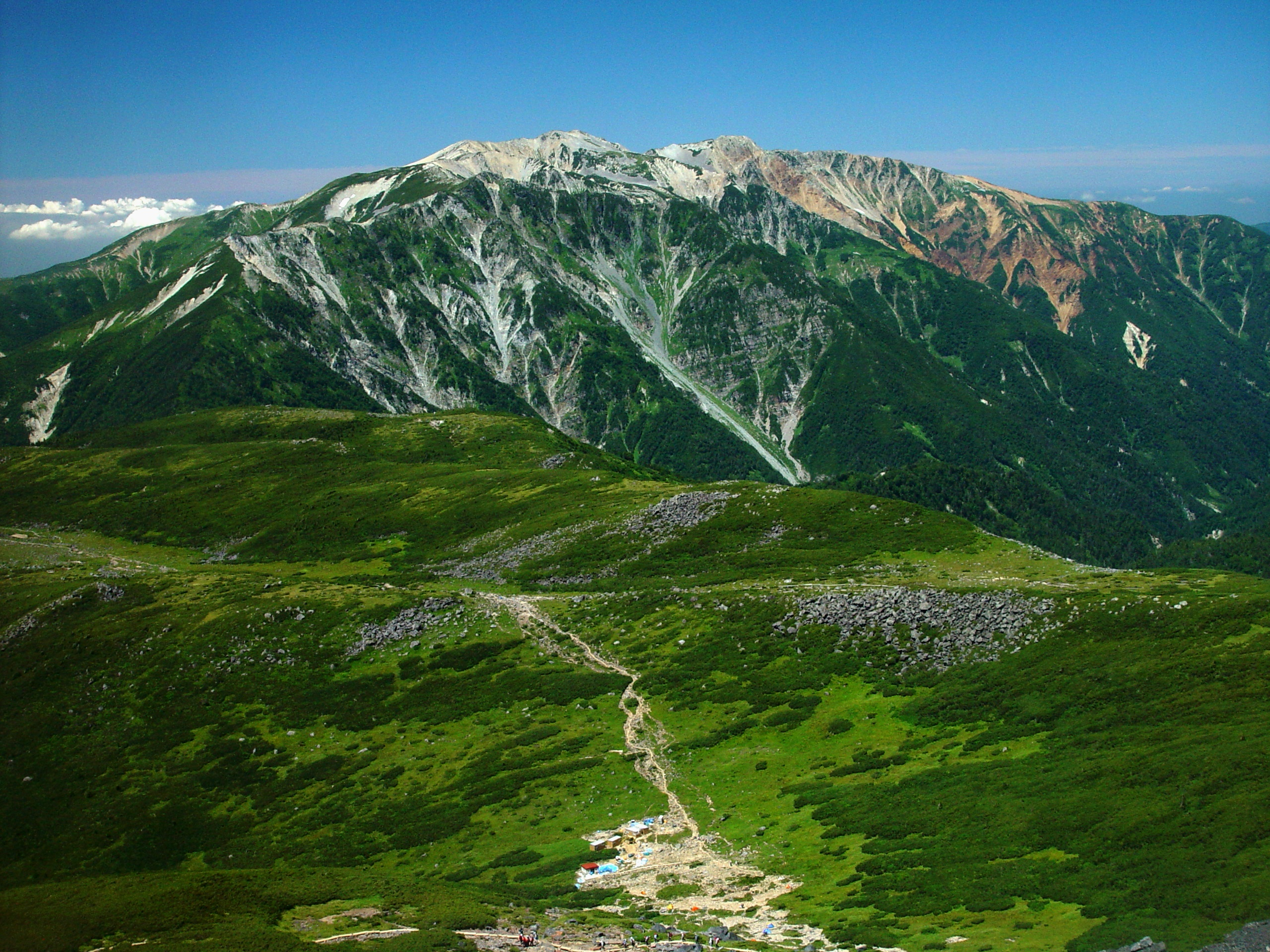 Yakushidake_from_Jiidake